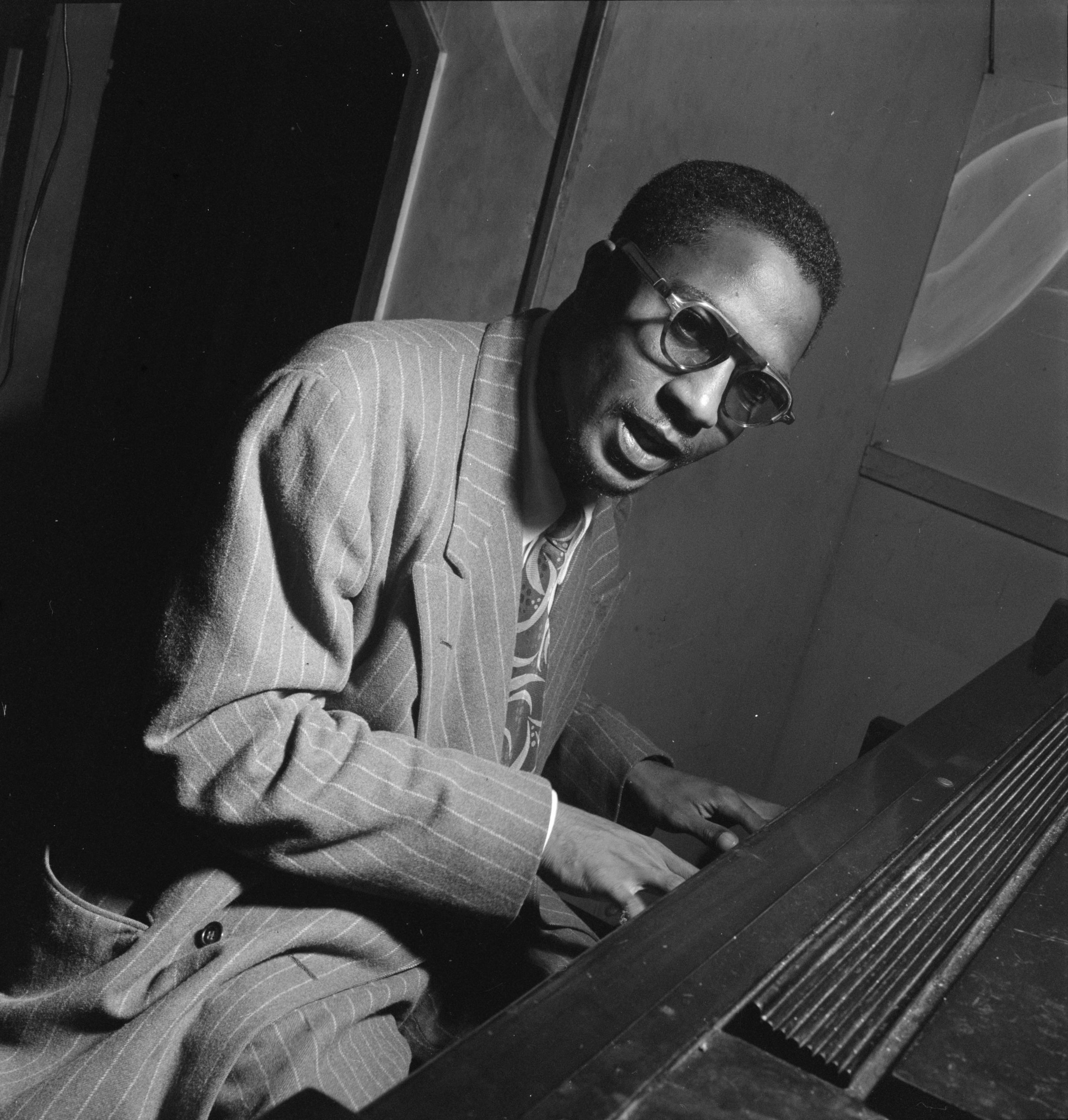 Thelonious Monk, Minton's Playhouse, New York, N.Y., ca. Sept. 1947 (Photograph by William P. Gottlieb)